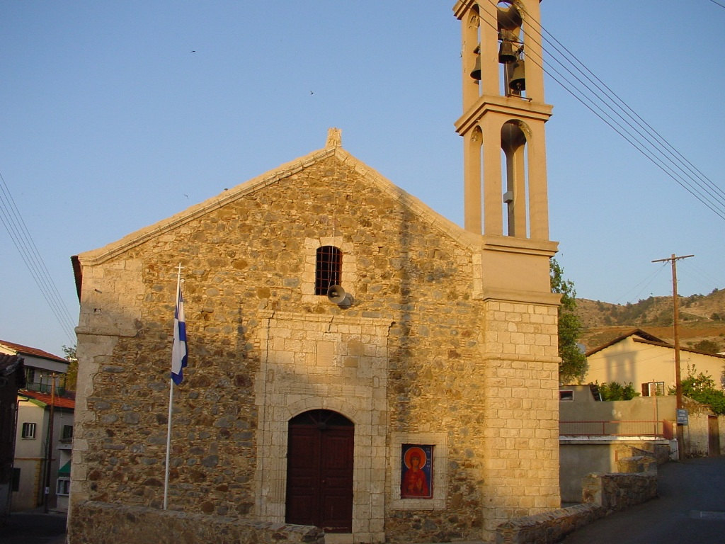 The church of Saint Marina in the village of Evrychou